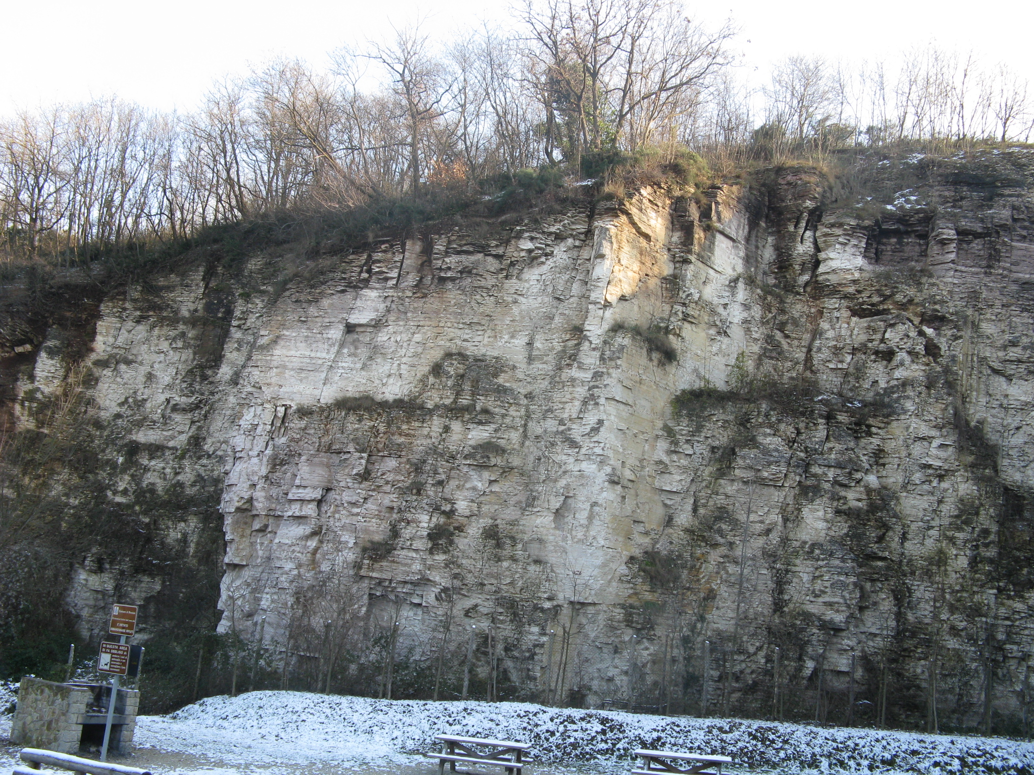 Rovolon, Veneto/Italy, former limestone quarry